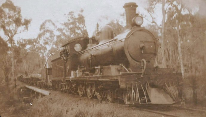 A three quarter view of a WAGR J class steam locomotive, either J 28 or J 30, at Wuraming, Western Australia, after the locomotive had been withdrawn from WAGR service on 31 January 1924 and sold to the State Sawmills. Some of the information in the description above is obtained from Gunzburg, Adrian (1984). A History of WAGR Steam Locomotives. Perth: Australian Railway Historical Society (Western Australian Division), p. 43. ISBN 0959969039.